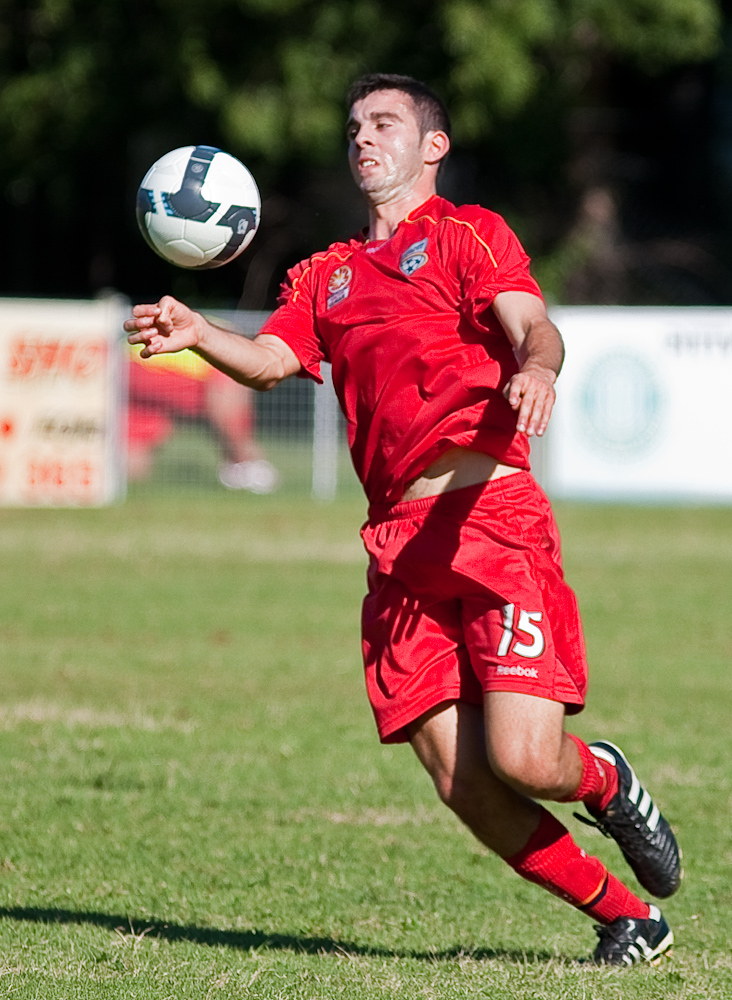 Francesco Monterosso playing for the Adelaide United National Youth League team.